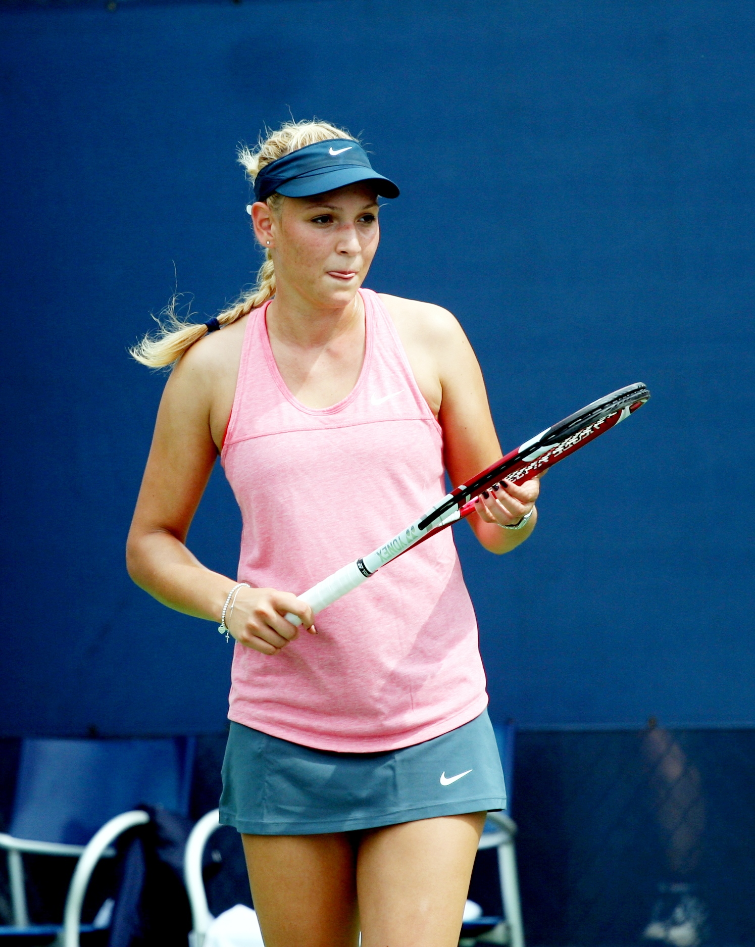 U.S. Open Friday, Aug. 30, 2013